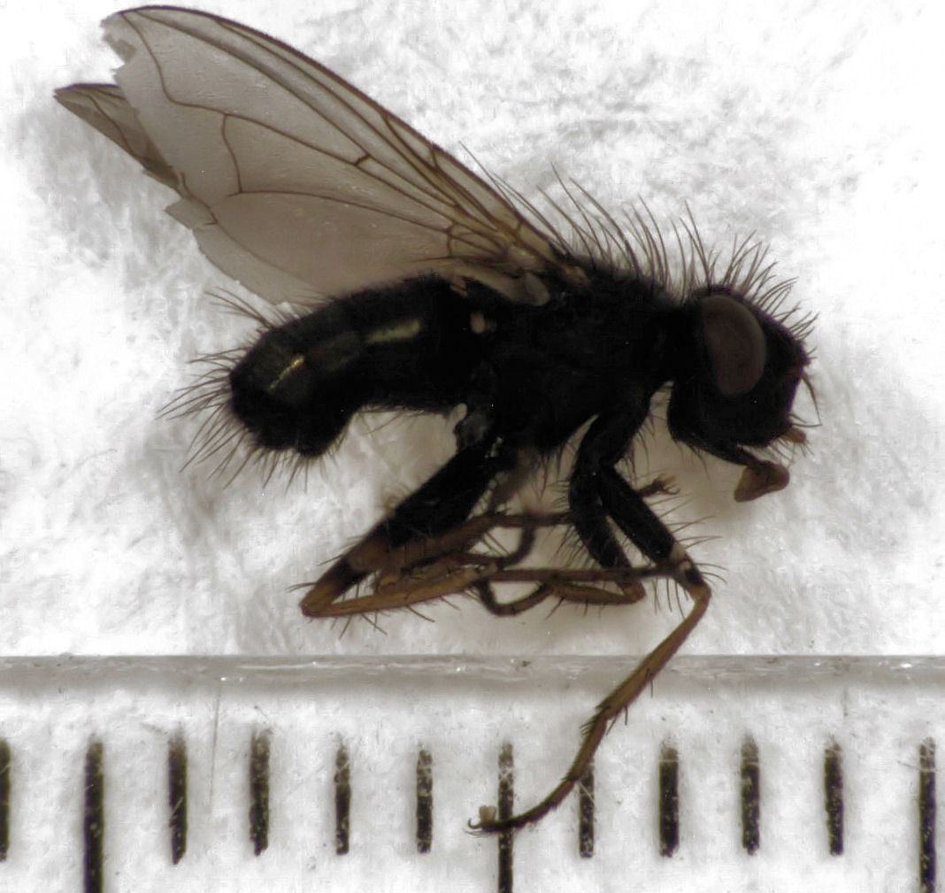 Xenocalliphora viridiventris (male)